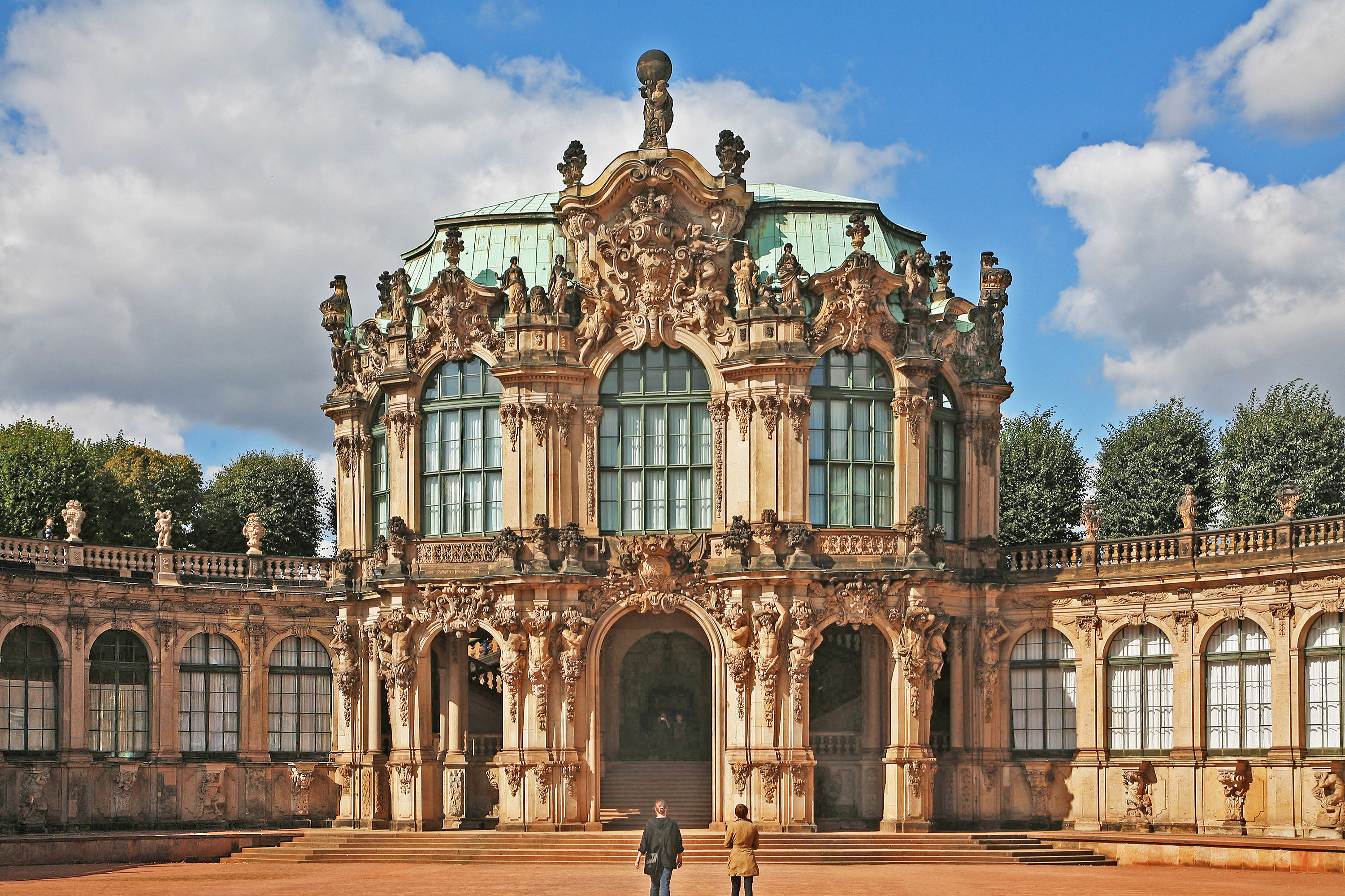 Zwinger Wallpavillon: The Zwinger is a block of buildings in the Baroque style with garden. The building is next to the Frauenkirche the most famous monument of Dresden.